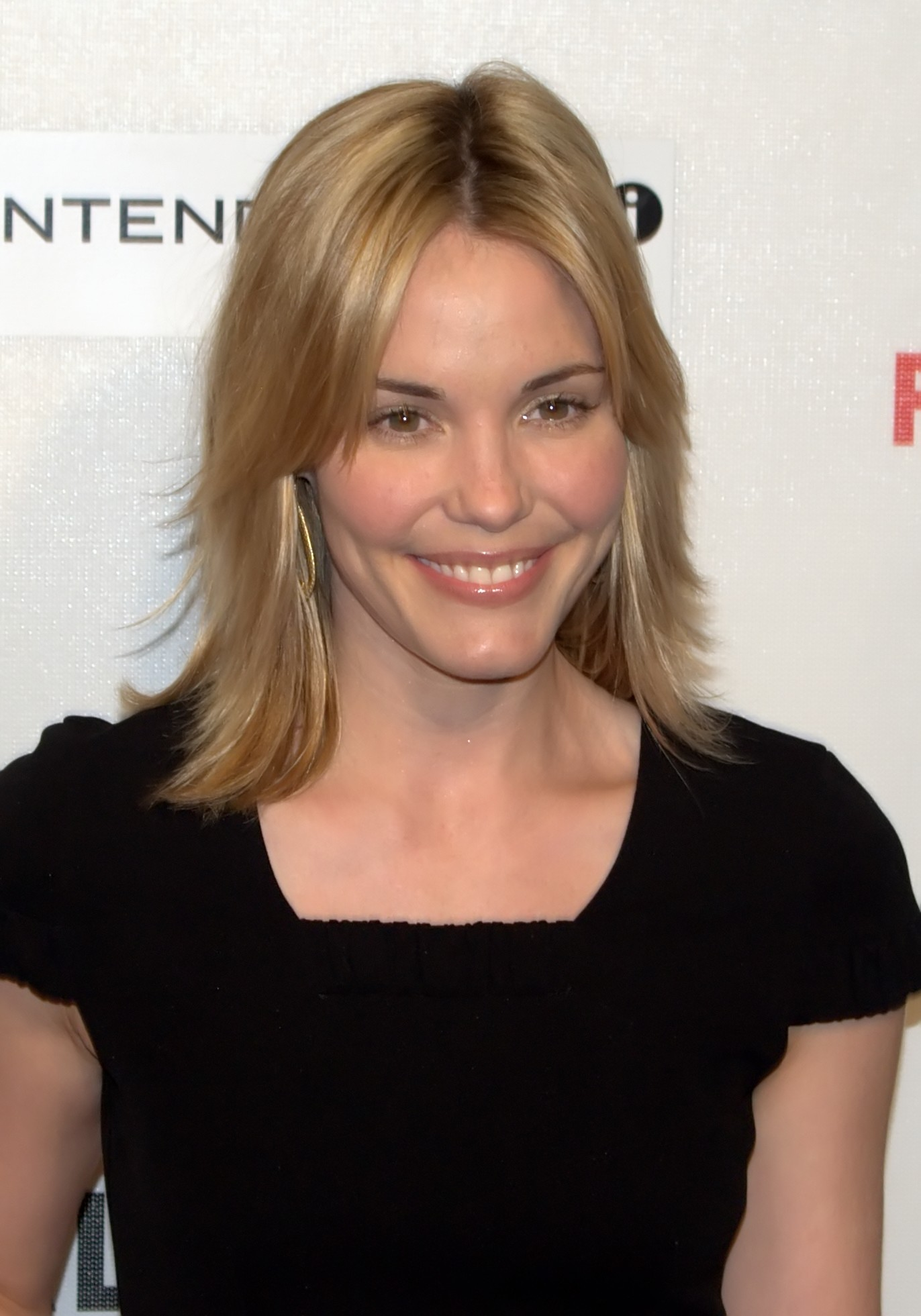 Leslie Bibb at the 2009 Tribeca Film Festival premiere of Moon.